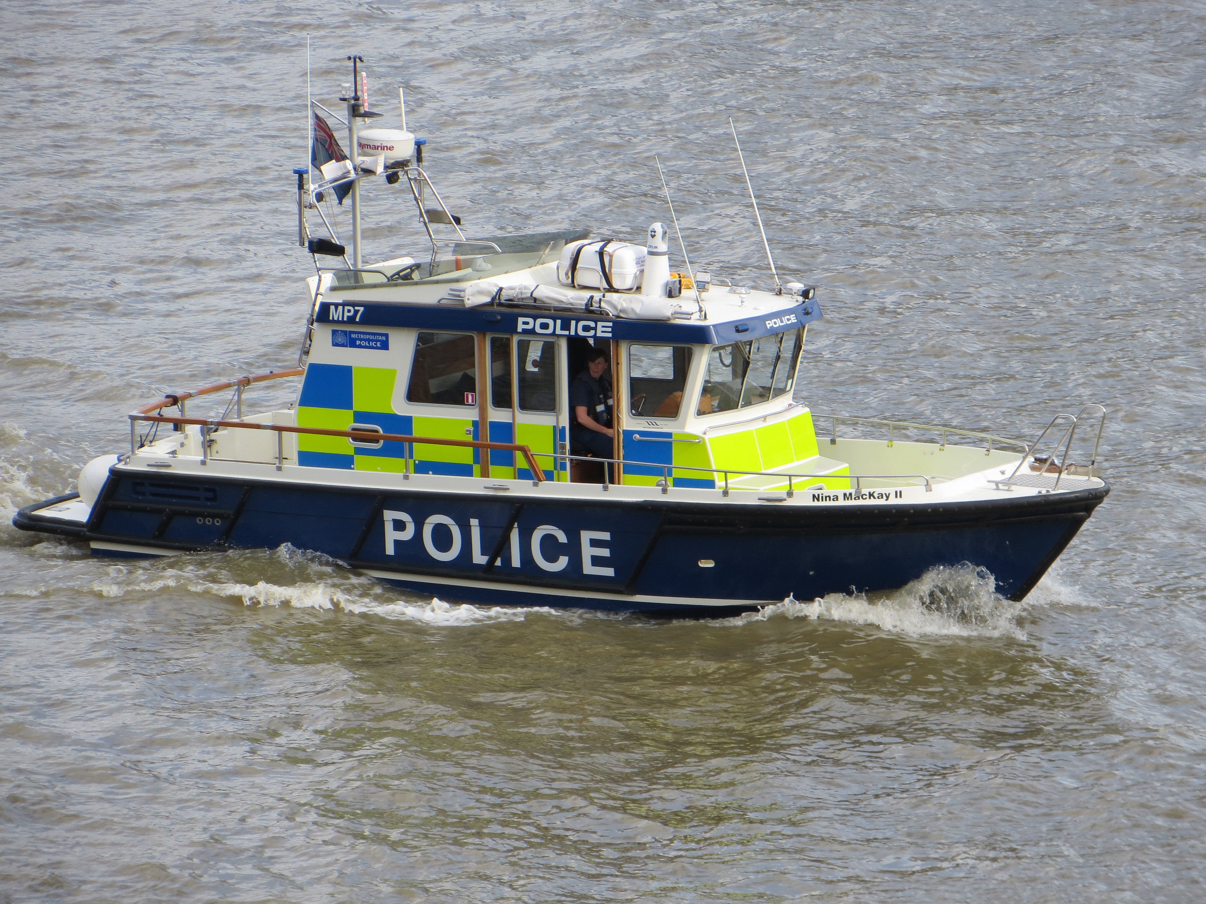 Metropolitan Police Marine Policing Unit Targa 31 "Nina Mackay II" on the Thames